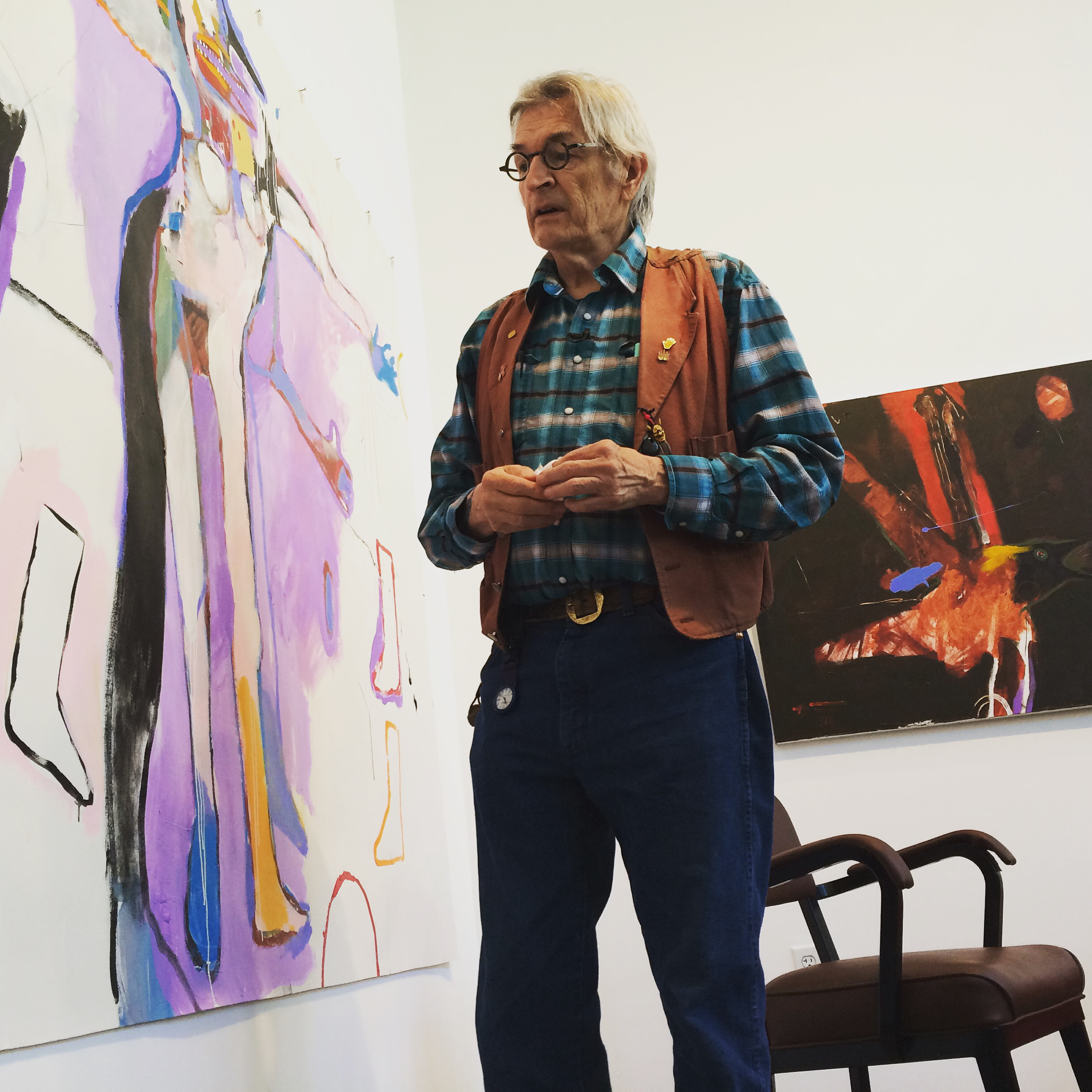 Rick Bartow speaking before an audience at Froelick Gallery, Saturday, June 13, 2015, during his exhibition "Horizon with Crow".